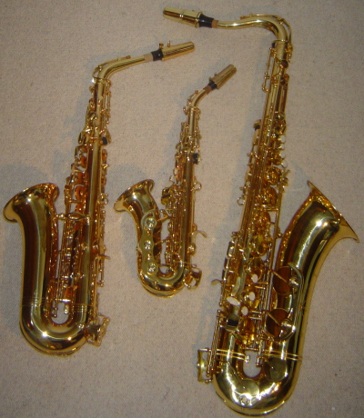 Size comparison of B-flat curved soprano, E-flat alto and B-flat tenor saxophones. My own photo.